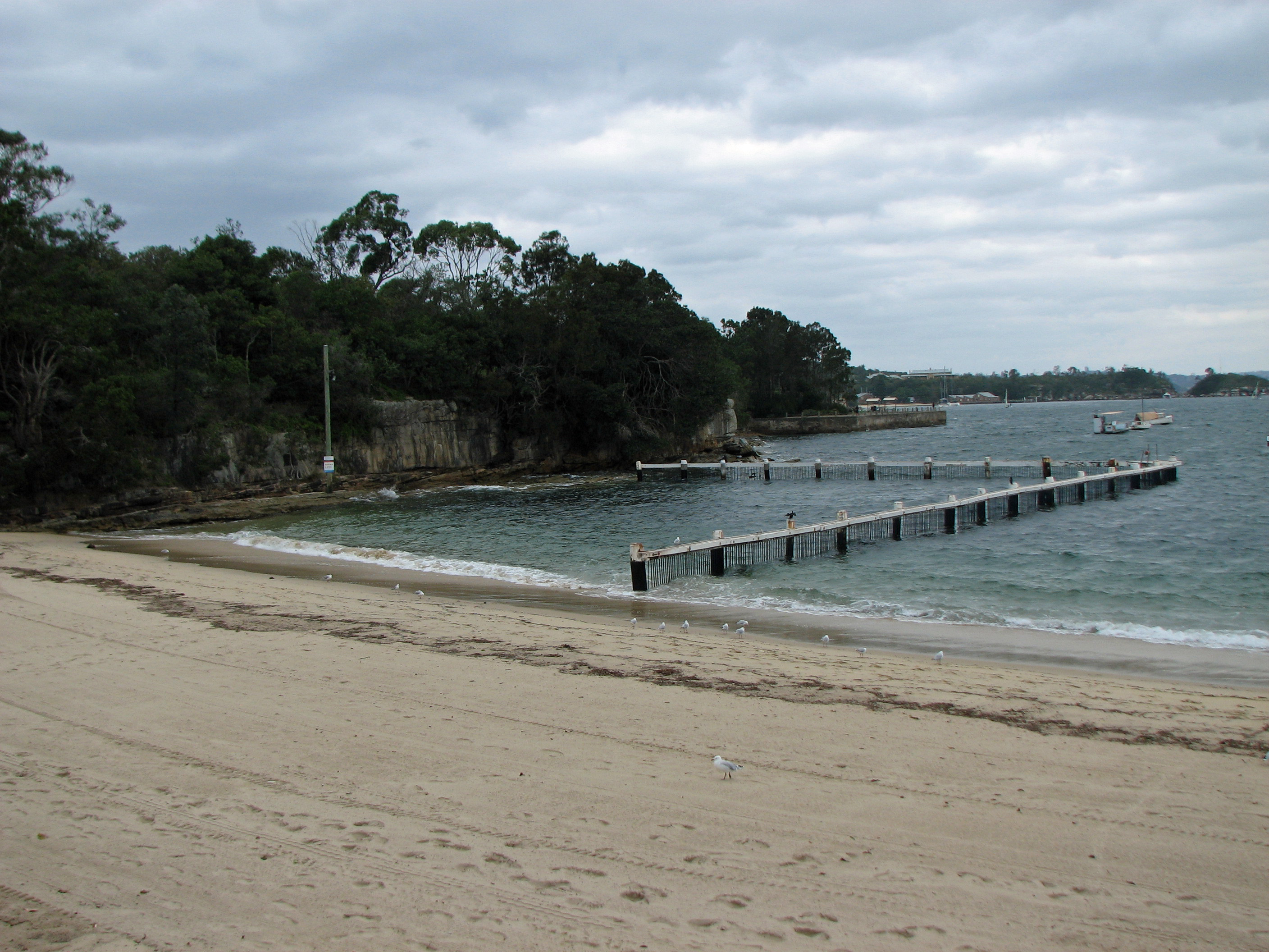 Little Manly Cove, in Sydney Harbour, is adjacent to Manly Cove, separated by Manly Point